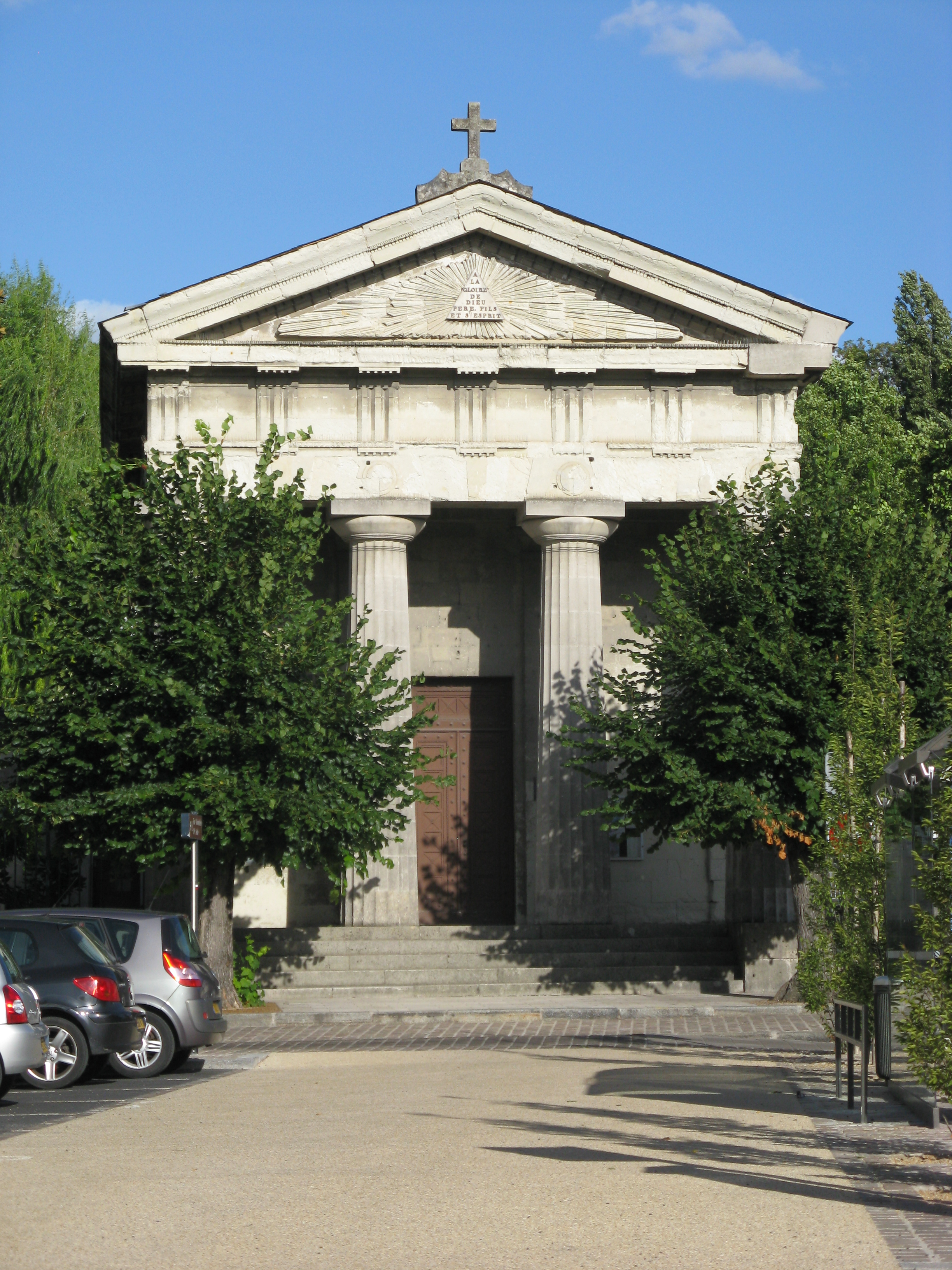 Temple, Saumur, 1843. architect: JOLY-LETERME Charles